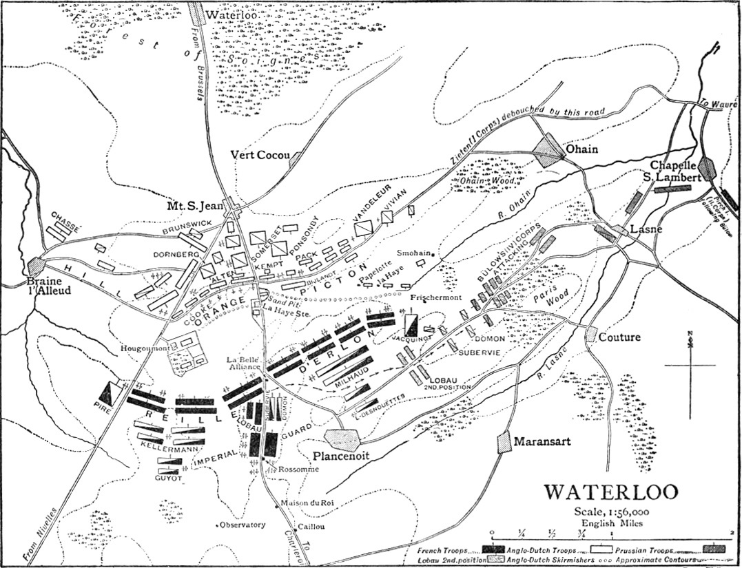 Waterloo Campaign (1815), Map III, Battle of Waterloo